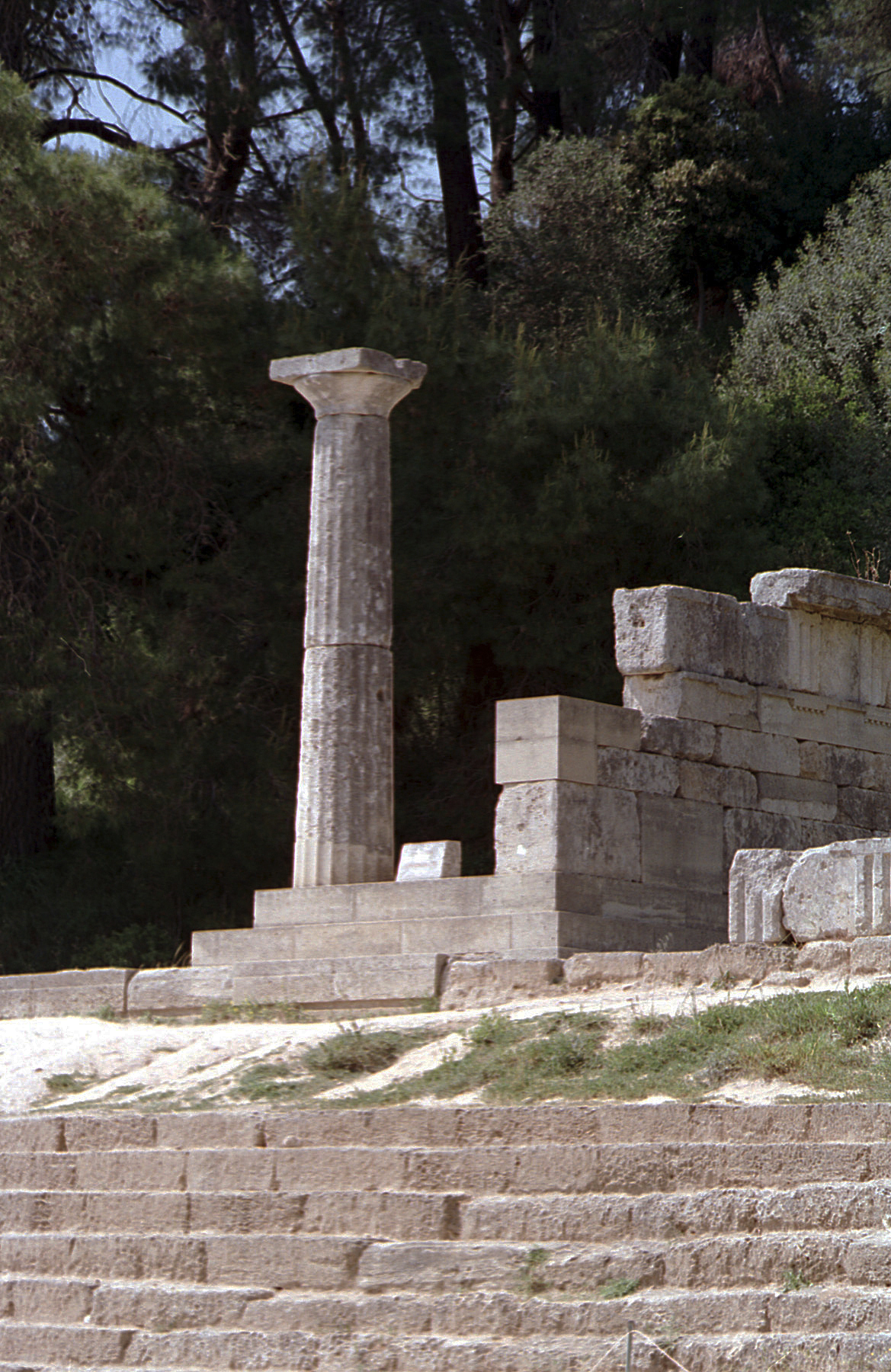 AWIB-ISAW: Treasury at Olympia (I) View of the treasury and platform at Olympia. by Tom Elliott copyright: Tom Elliott (used with permission) photographed place: Olympia [1] Published by the Institute for the Study of the Ancient World as part of the Ancient World Image Bank (AWIB). Further information: [2].